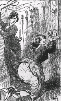 Image of S/M sexuality